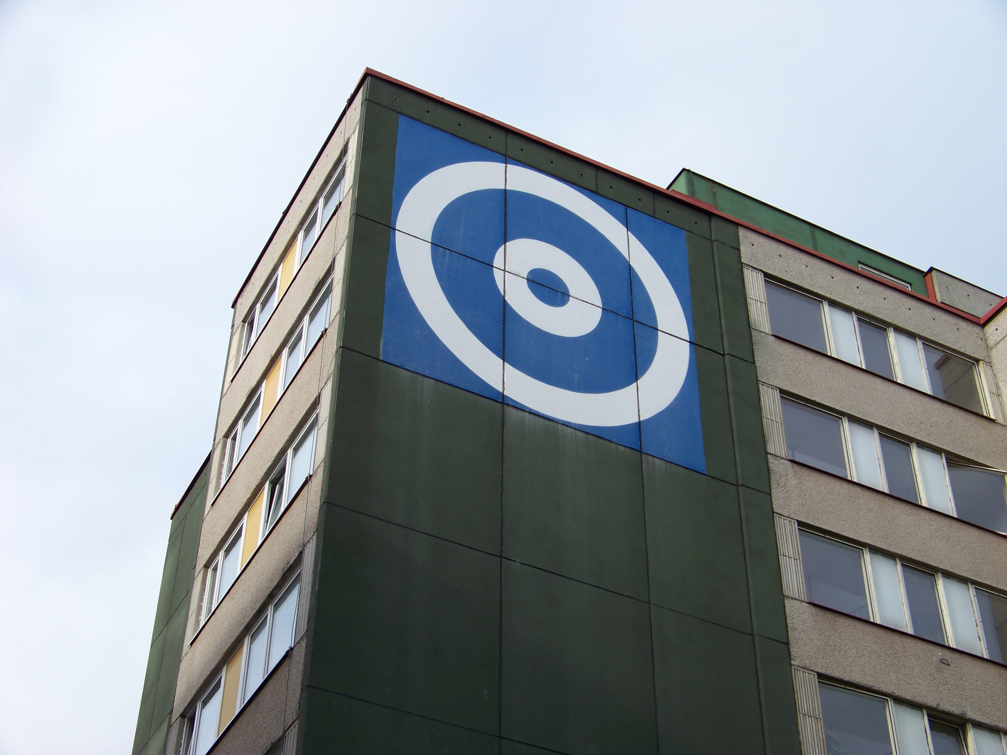 Prague-Chodov, the Czech Republic. Horní Roztyly Housing Estate, Augustinova street, symbol of this part of the housing estate.